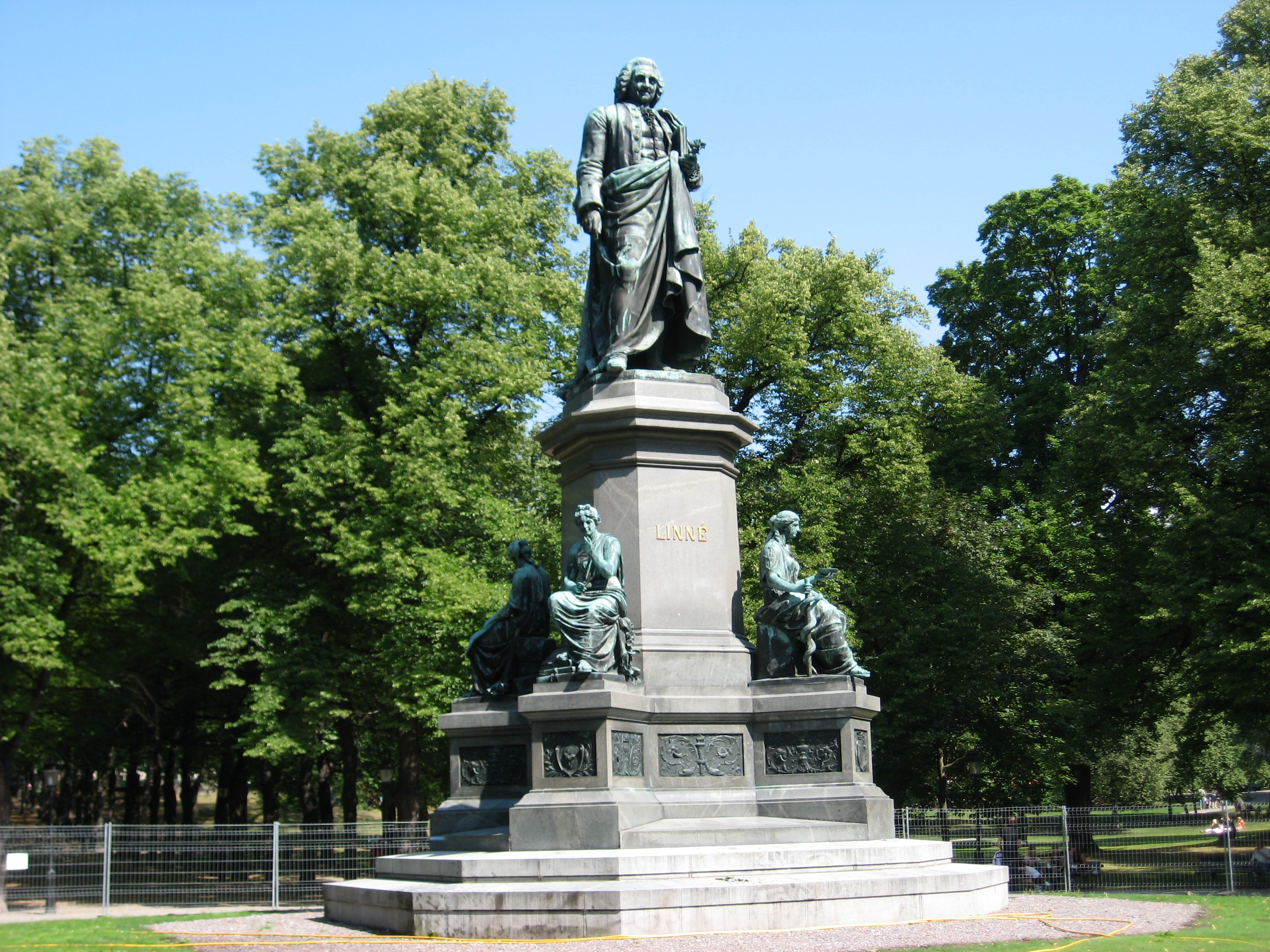 Statue of Carl von Linné by Johannes Kjellberg (1836–1885), erected in 1885 near the National Library in Humlegården in Stockholm, Sweden